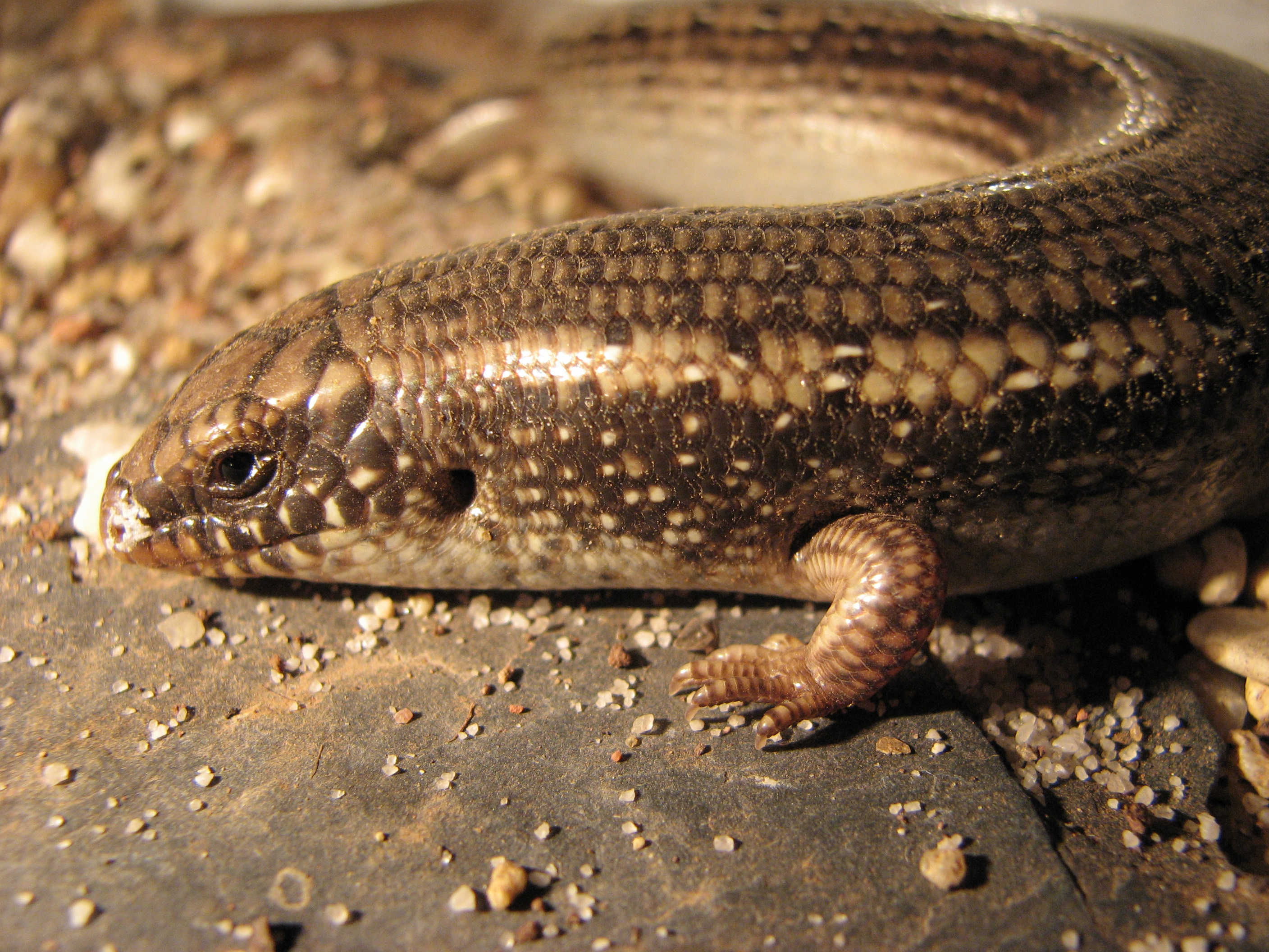 Ocellated skink